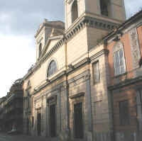 Chiesa Sant'Antonio Caserta